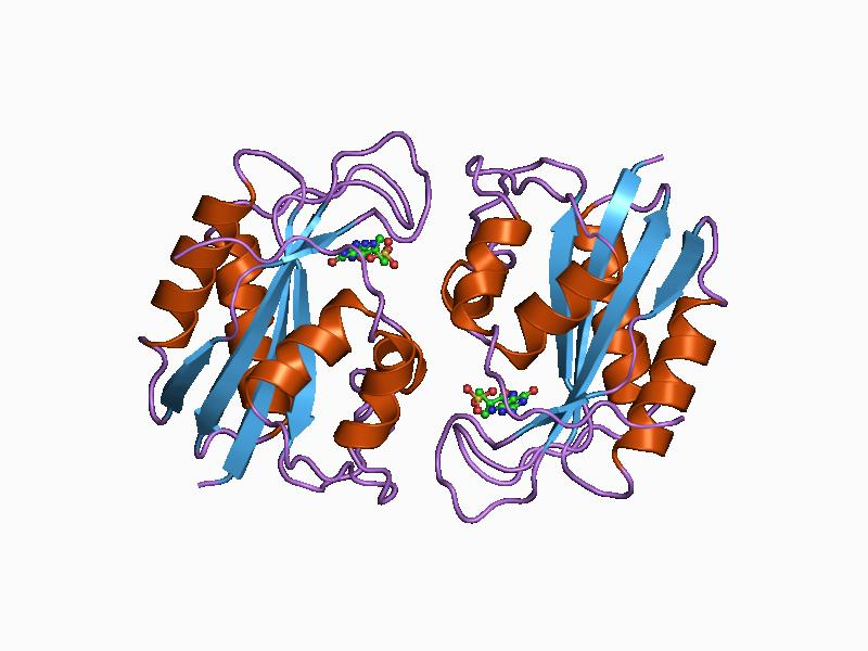 Cartoon representation of the molecular structure of protein registered with 1cbk code.